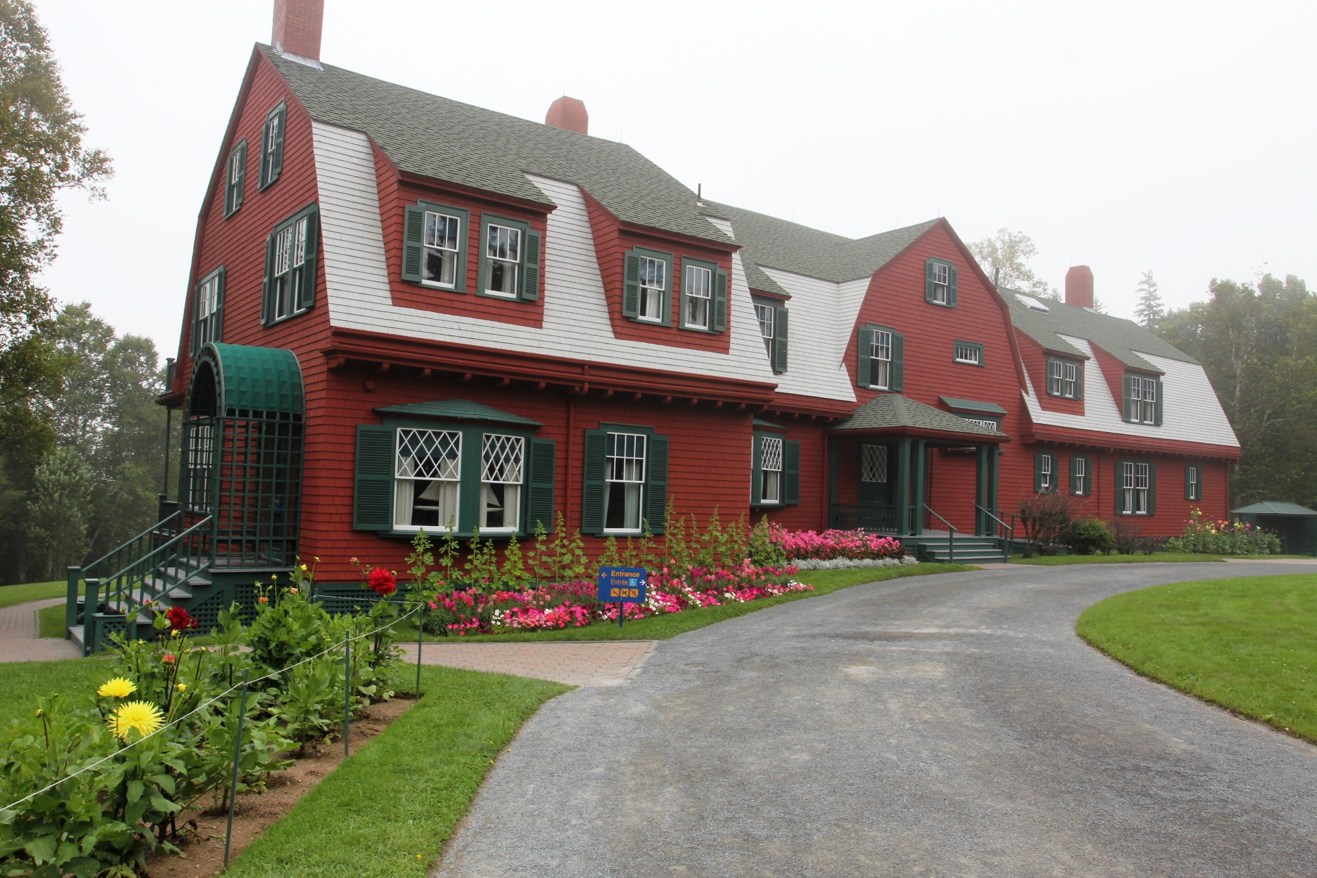 Roosevelt Campobello International Park / Parc international Roosevelt de Campobello